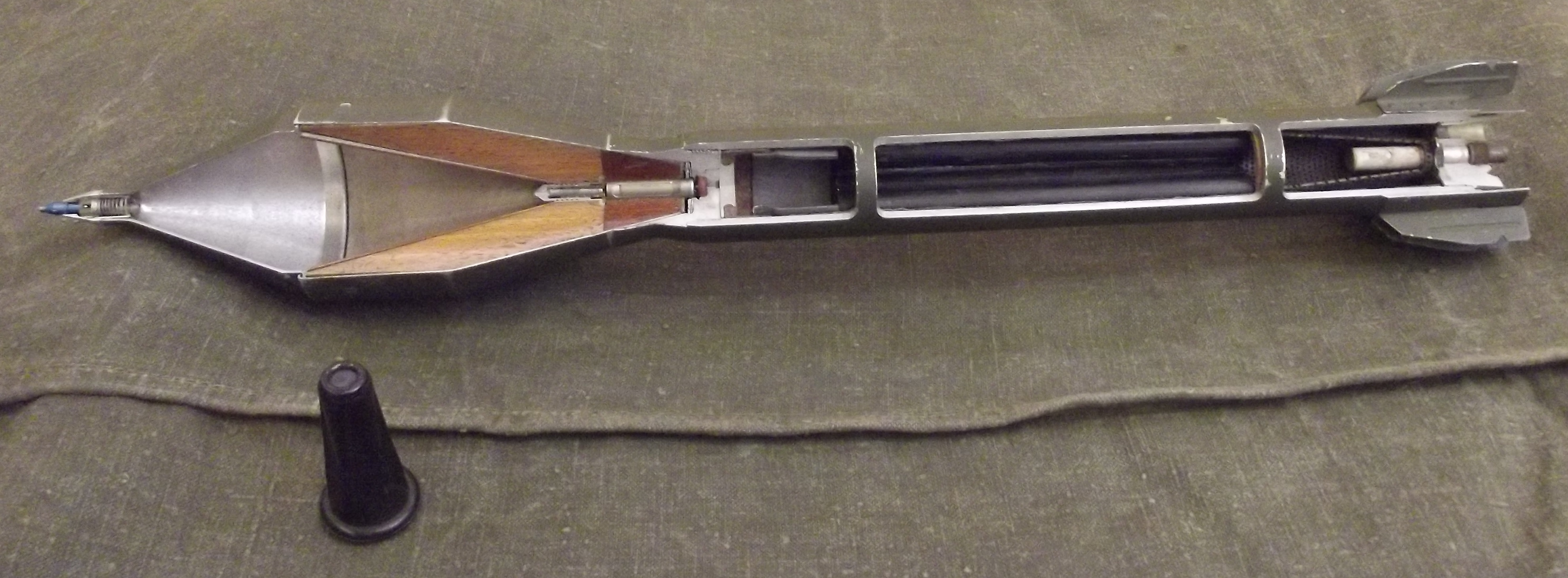 HESH round sectioned to show (wooden replica) booster and main charges, copper cone and rocked motor.